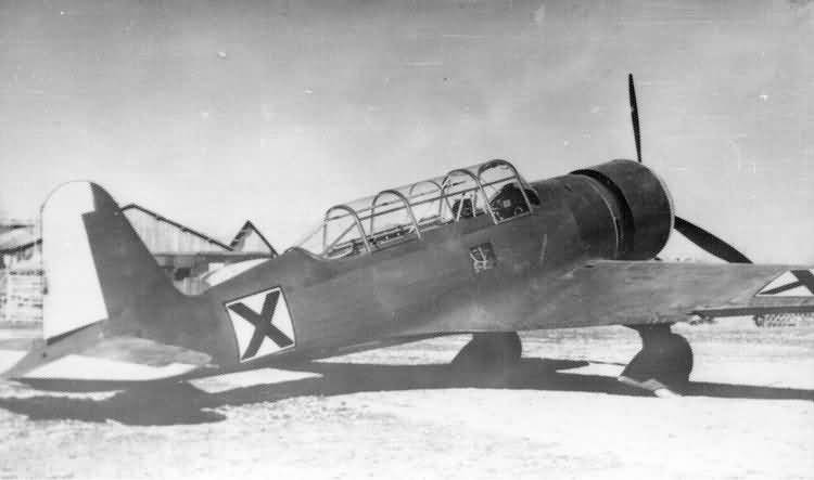 Built by the Darjavna Aeroplanna Rabotilnitza (State Aircraft Workshop) at Sofia, the DAR 10 was a two seat light bomber, desgined in 1938 by Zvetan Lazarov. Supposed to be a copy of the prewar polish airplane "Karasiu"